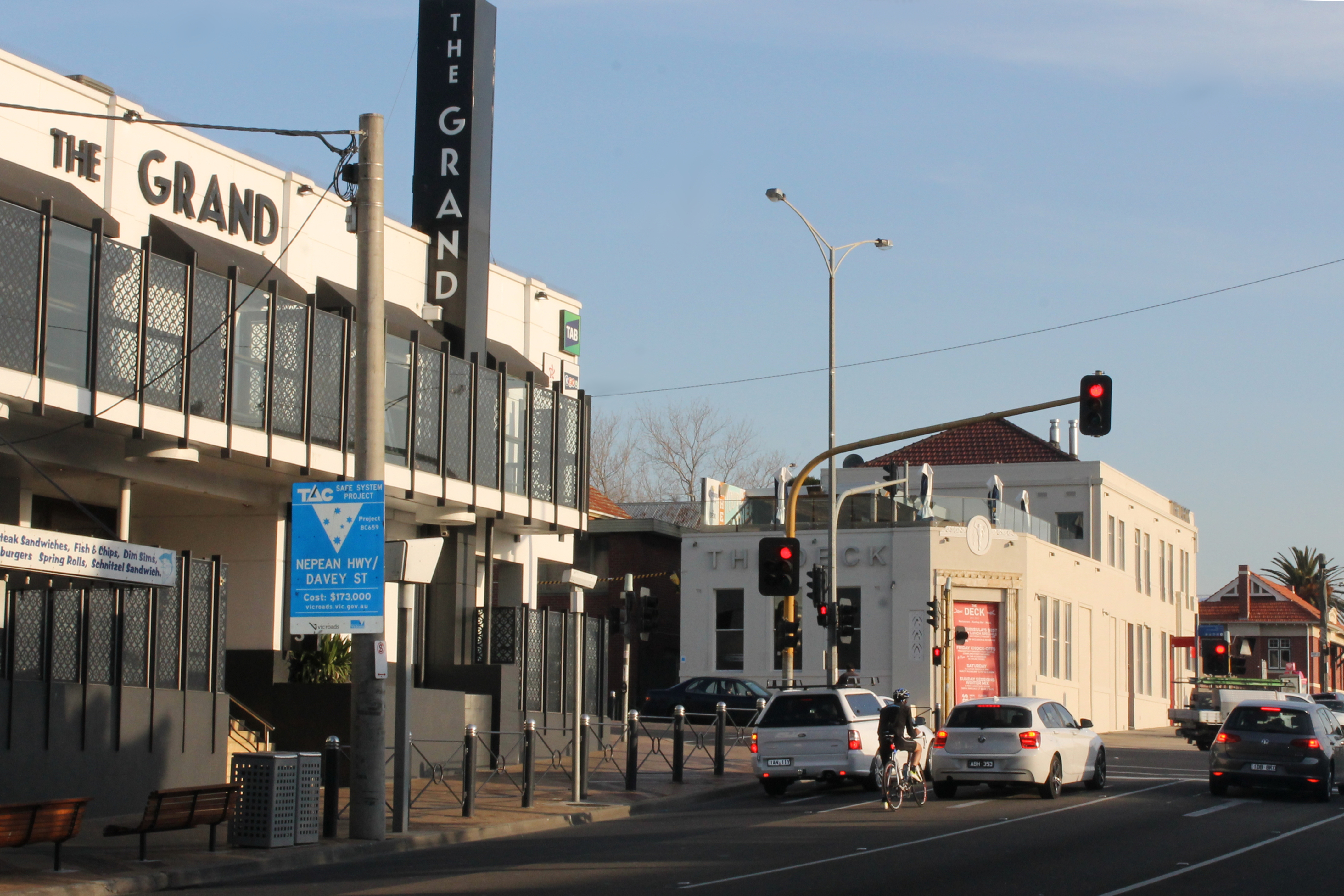 "Pub Corner" (2 of 4 pubs shown) on Nepean Highway/Davey Street intersection in Frankston, Victoria, Australia.